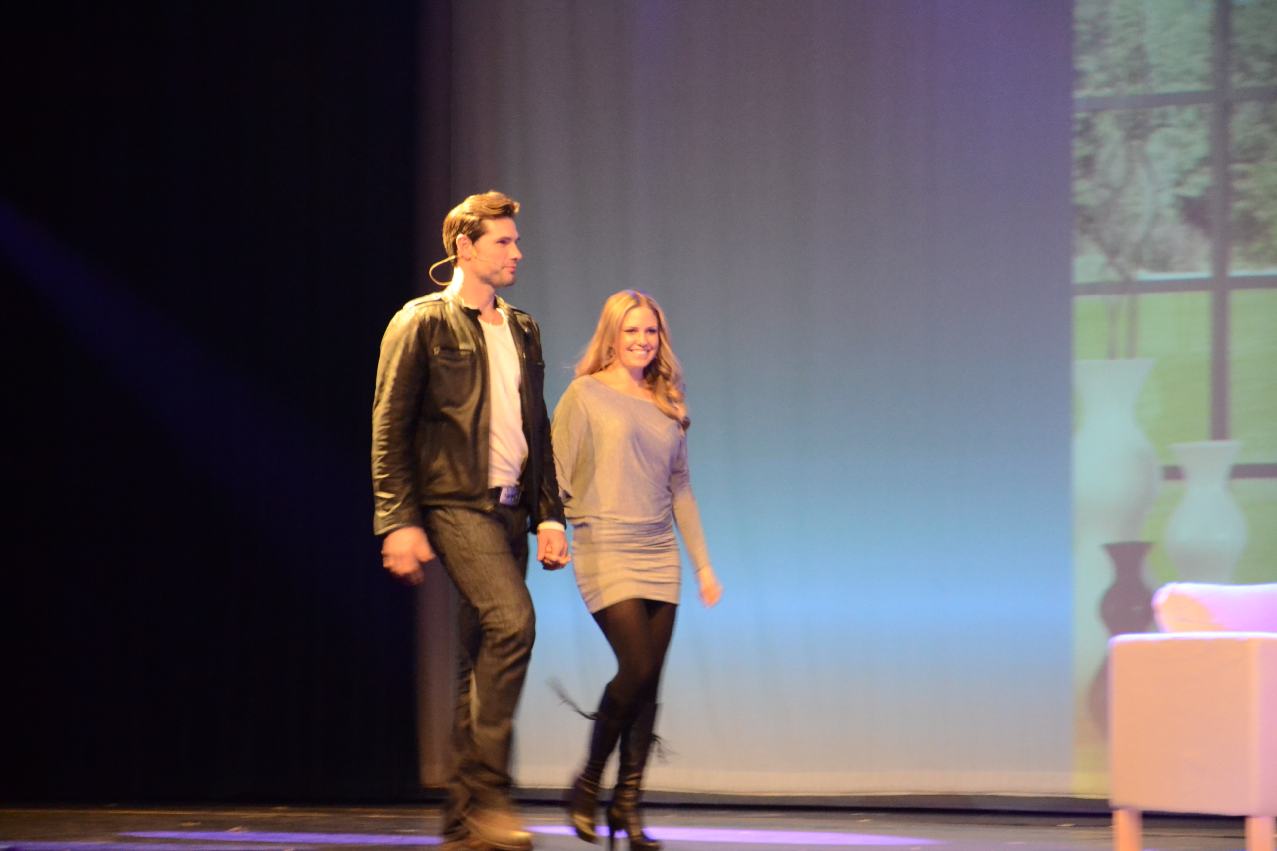 As The World Turns farewell event in Hilversum (The Netherlands)